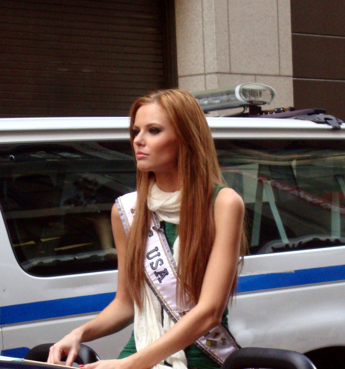 Miss USA - Alyssa Campanella awaiting her turn to march in the Columbus Day Parade - 2011 - NYC. Alyssa Campanella, Miss USA 2011 seated inside (atop) of a red Ferrari as she awaited her turn in the Columbus Day Parade in New York City,October 10, 2011.